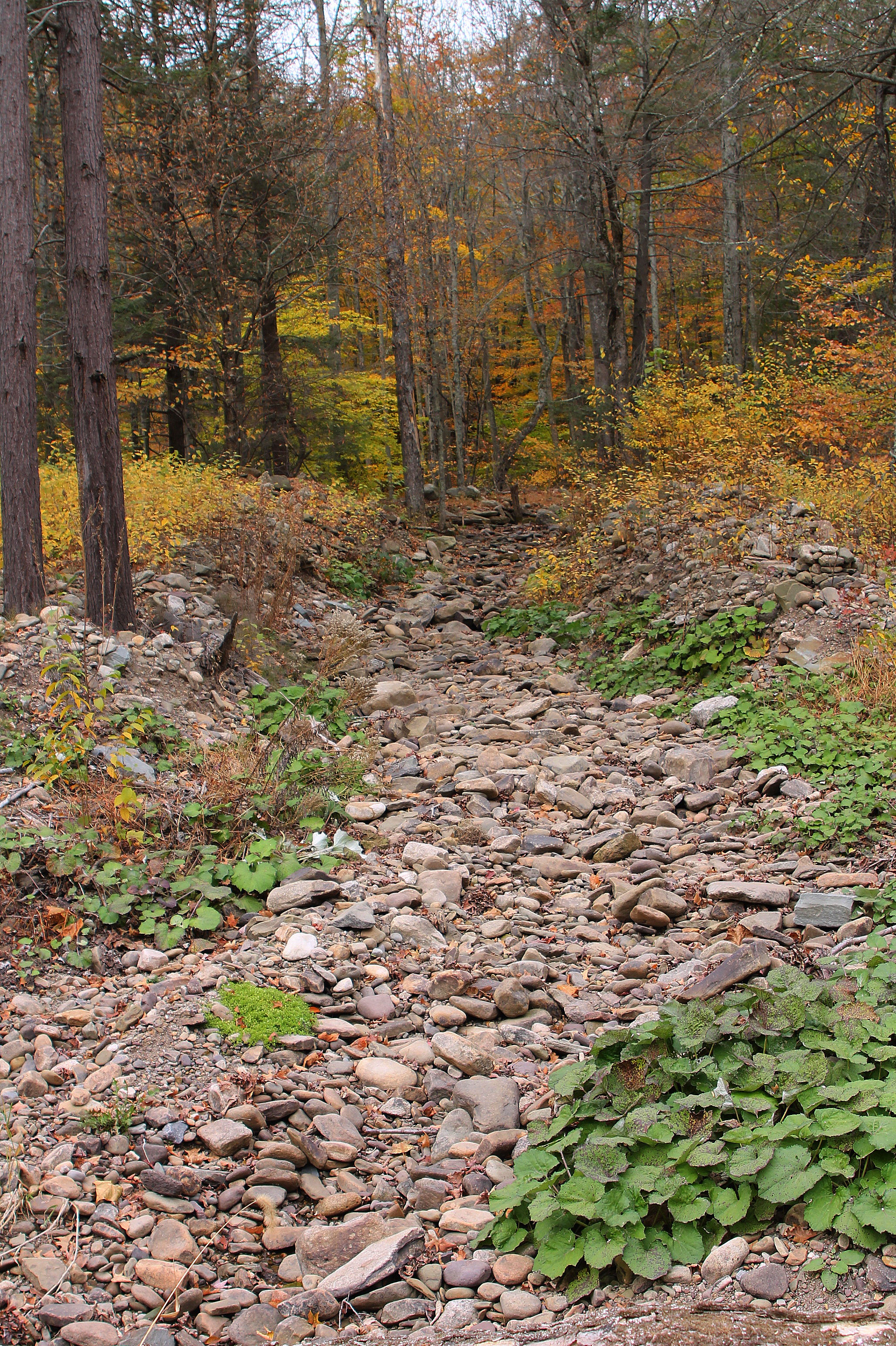 York Run looking upstream near its mouth in low flow conditions